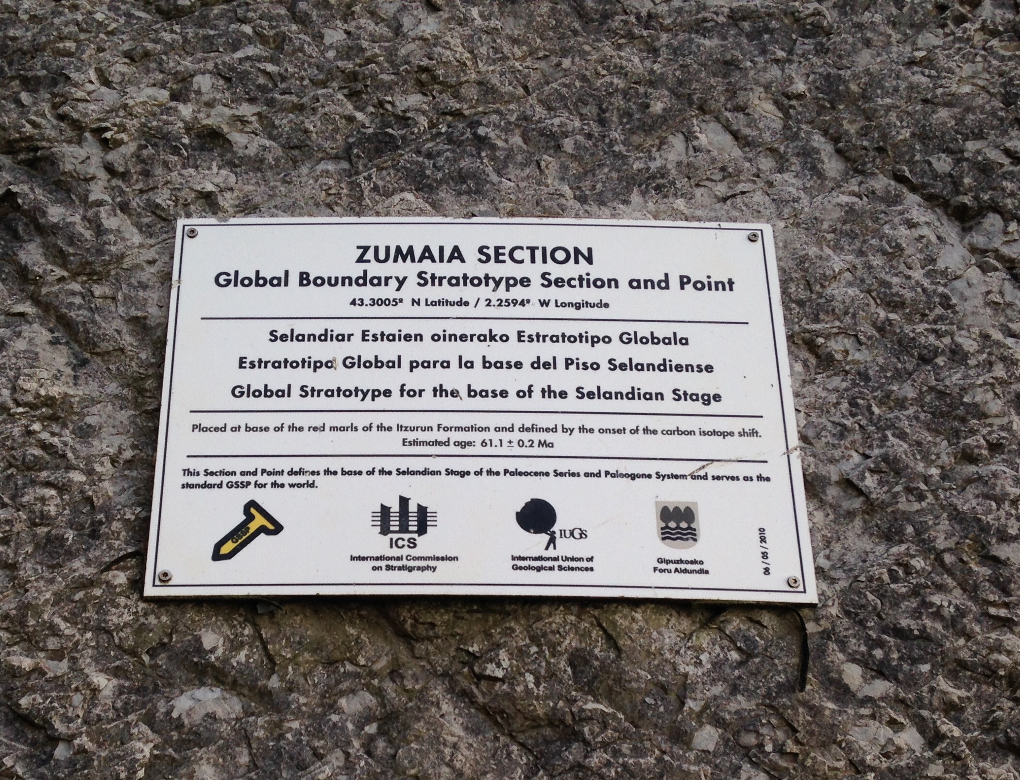 Information sign for the GSSP of the Seelandian stage (lower Upper Paleocene) at Zumaia section, Spanish Basque Country. The sign is mounted near the “golden spike” on the top plane of the uppermost limestone bed of the Aitzgorri Limestone Formation which is identical to the basal plane of the overlying red marls of the lowest part of the Itzurun Formation (right-hand outside the picture).[1]